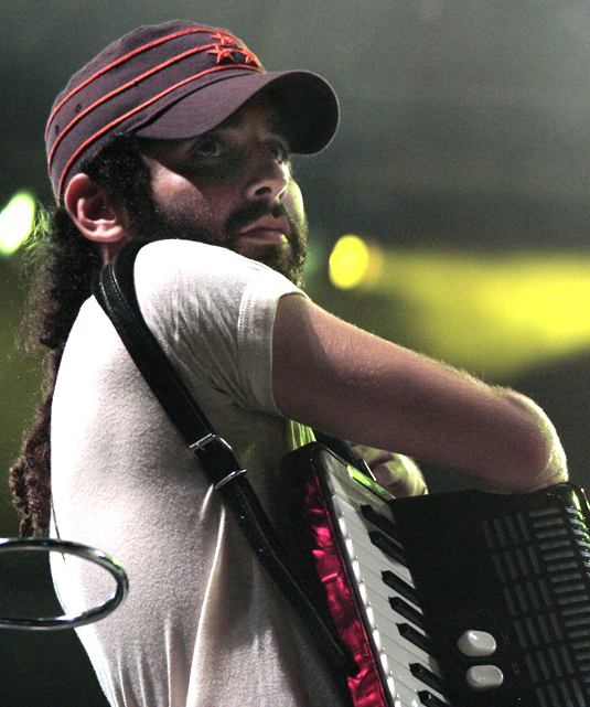 Picture of band Calle 13 (Visitante pictured only) in a concert in Nicaragua. Picture was cropped and brightness and contrast levels were increased.